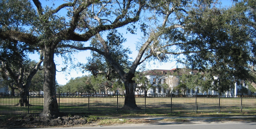 Portion of the campus of Dillard University, on Gentilly Road, New Orleans, Louisiana.